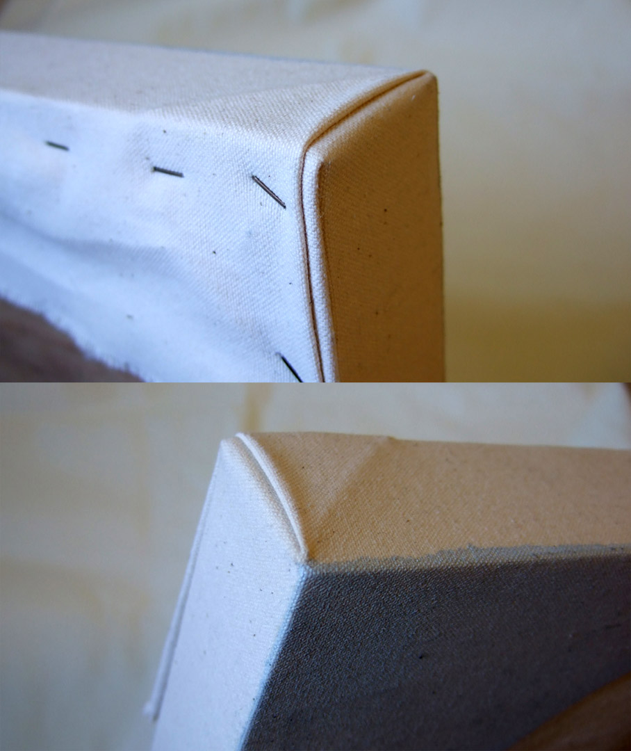 Stretched artist's canvas in the gallery wrap style, fastening the canvas to the back of the stretcher frame.